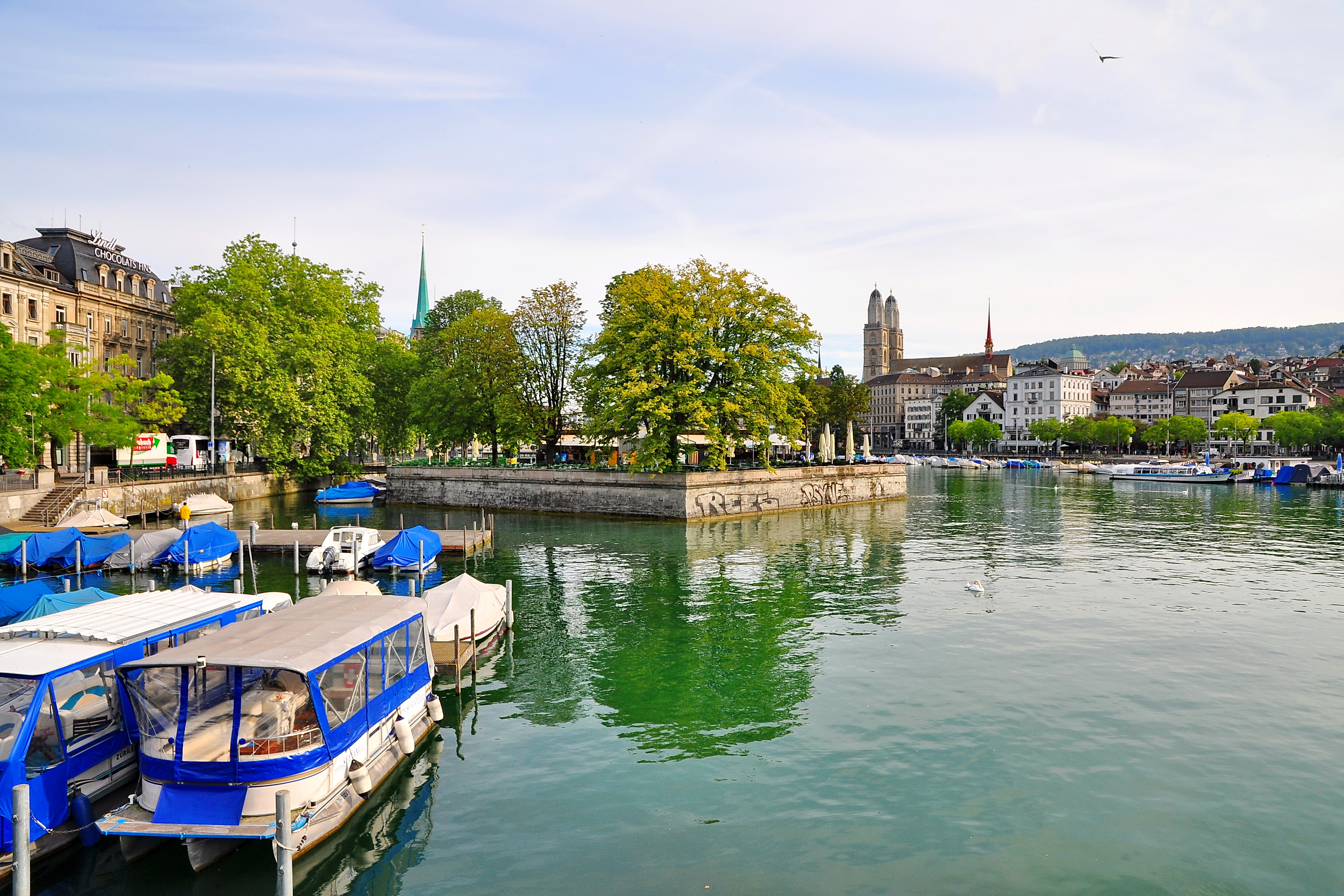 View from Quaibrücke (Quai bridge) in Zürich (Switzerland) towards Zürichsee : Bauschänzli in the Limmat river, Stadthausquai to the left, and Grossmünster and Limmatquai to the right.